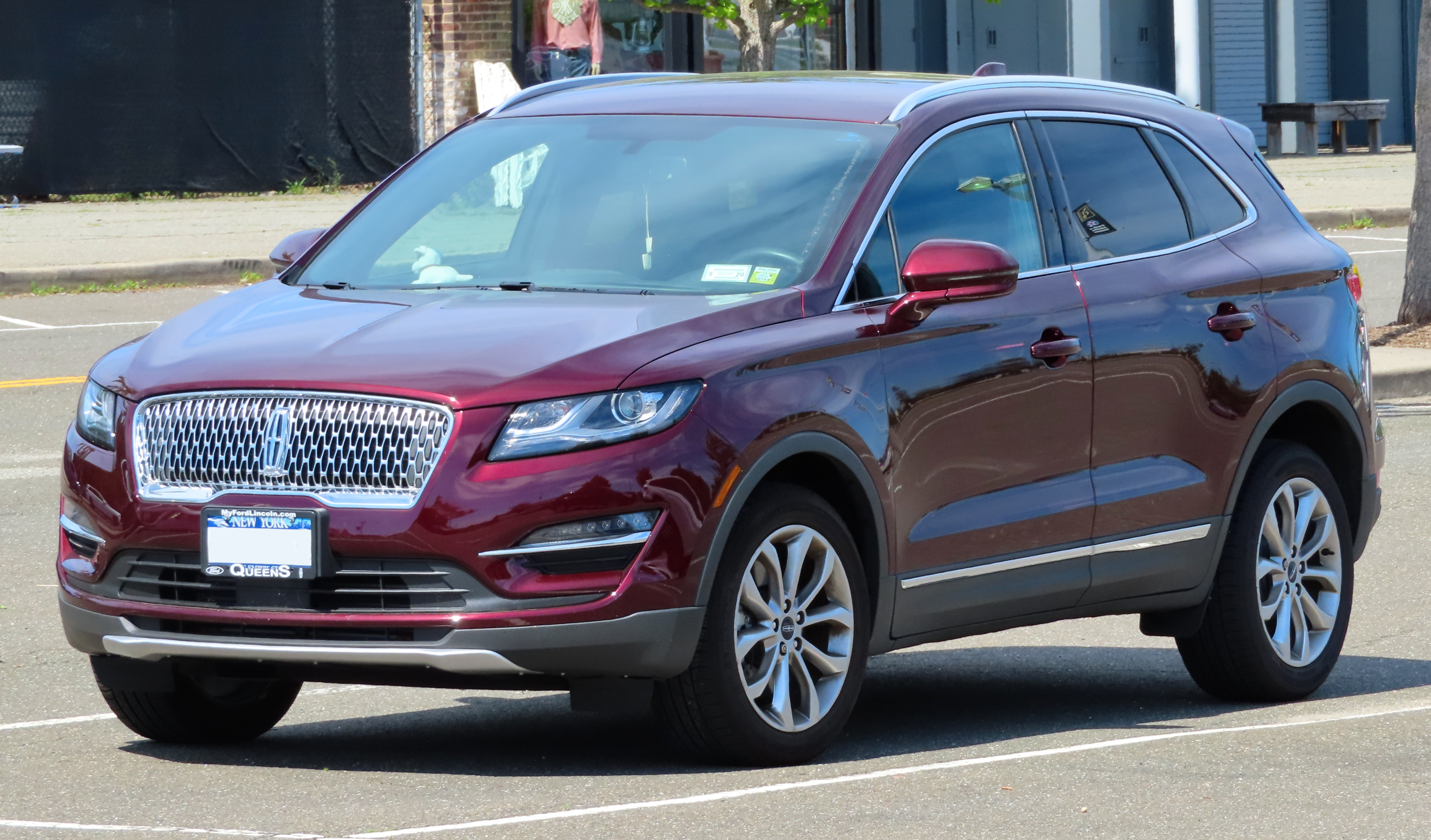 A 2019 Lincoln MKC Cradle of Aviation Museum parking lot, Garden City, New York, USA